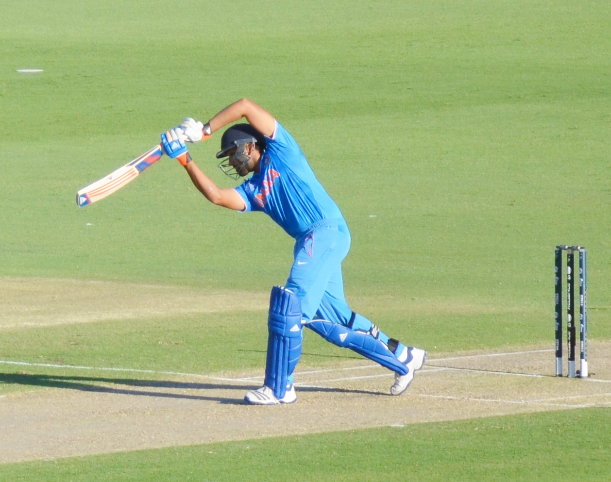 Rohit Sharma batting for India against United Arab Emirates during their 2015 Cricket World Cup match at the WACA Ground in Perth, Australia.